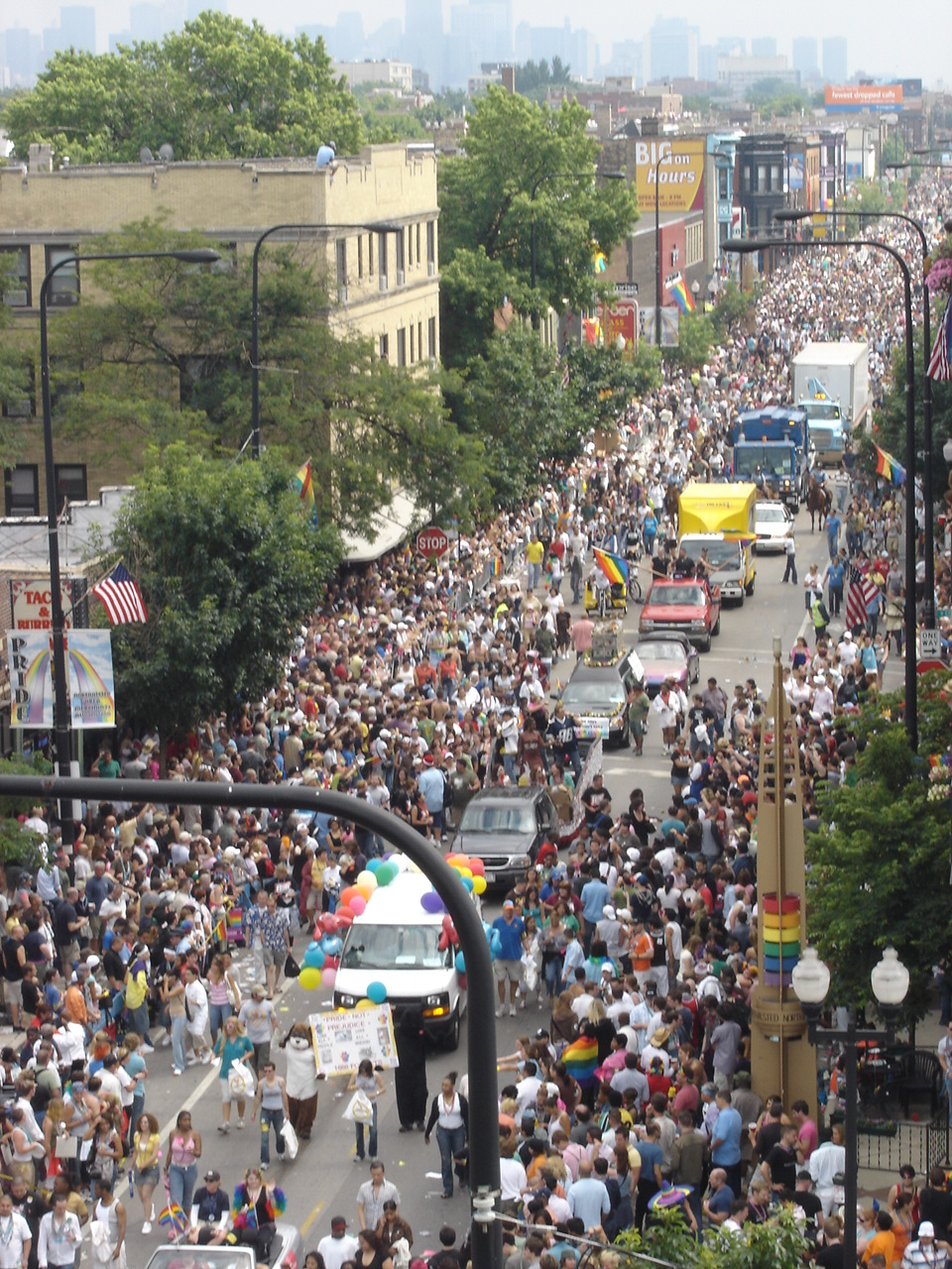 Chicago Pride 2006 from Halsted Street rooftop (photo taken by me)